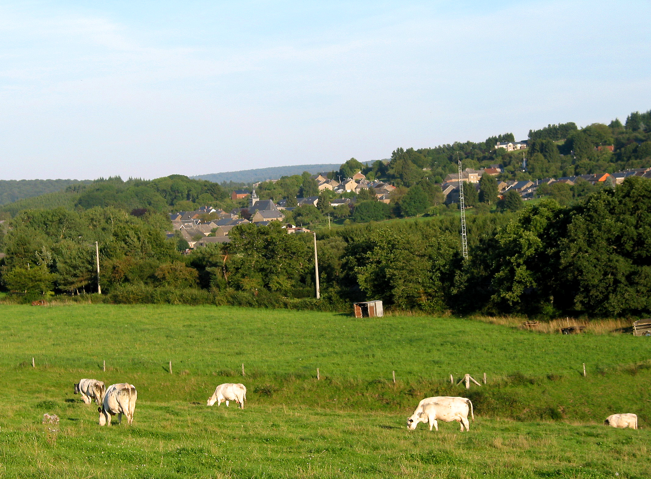 Bure (Belgium): the village in the summer.